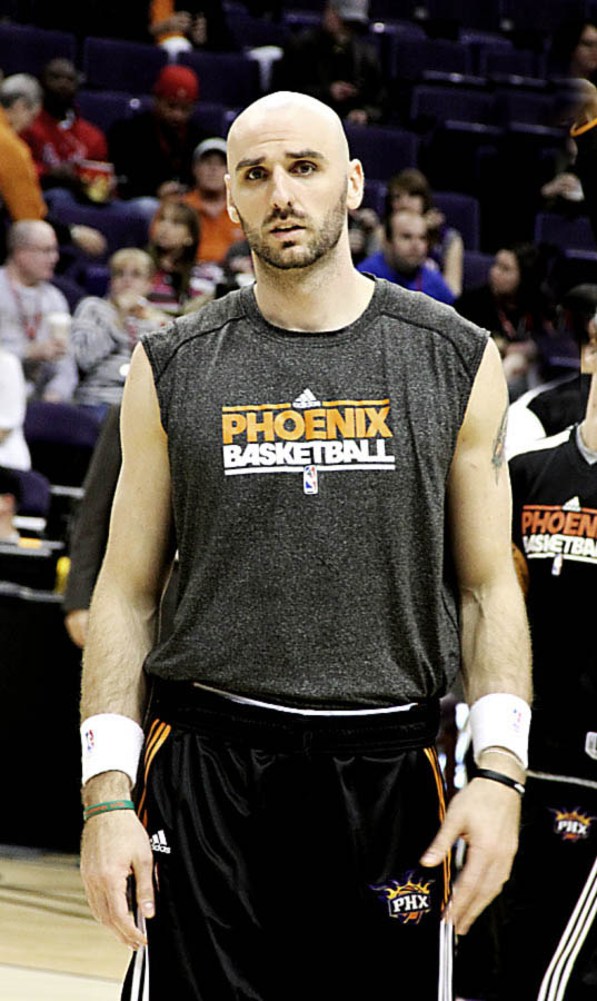 Marcin Gortat, 2011